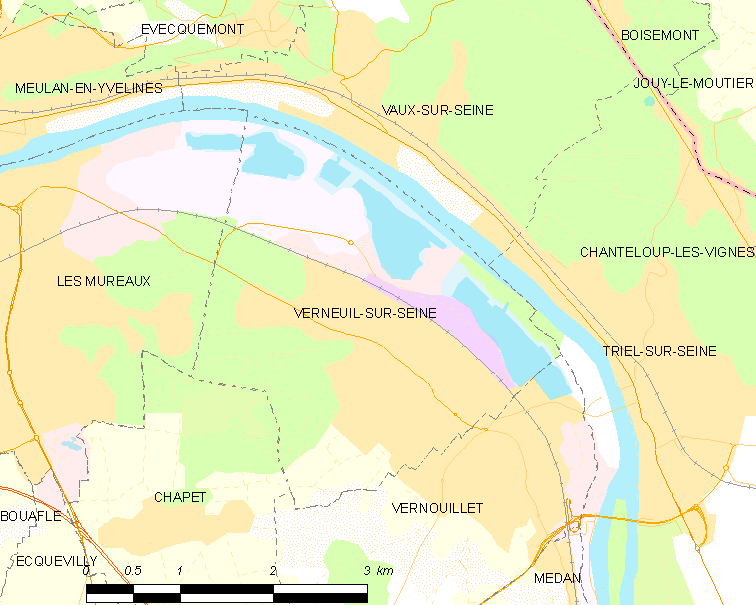 Map of French municipality Verneuil-sur-Seine